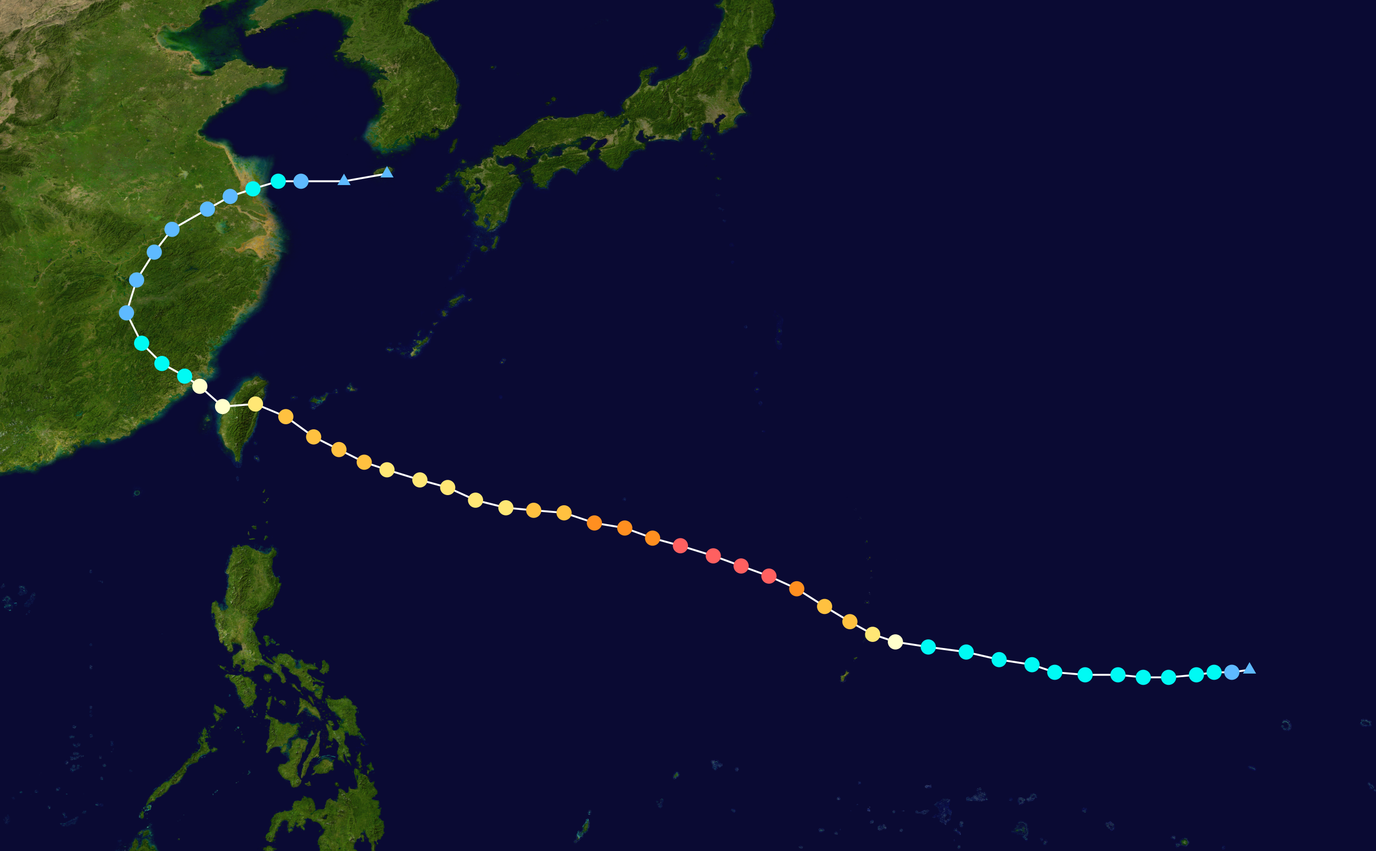 Track map of Typhoon Soudelor of the 2015 Pacific typhoon season. The points show the location of the storm at 6-hour intervals. The colour represents the storm's maximum sustained wind speeds as classified in the Saffir–Simpson scale (see below), and the shape of the data points represent the nature of the storm, according to the legend below. Saffir–Simpson scale Tropical depression≤38 mph≤62 km/h Category 3111–129 mph178–208 km/h Tropical storm39–73 mph63–118 km/h Category 4130–156 mph209–251 km/h Category 174–95 mph119–153 km/h Category 5≥157 mph≥252 km/h Category 296–110 mph154–177 km/h Unknown Storm type Tropical cyclone Subtropical cyclone Extratropical cyclone / Remnant low / Tropical disturbance / Monsoon depression